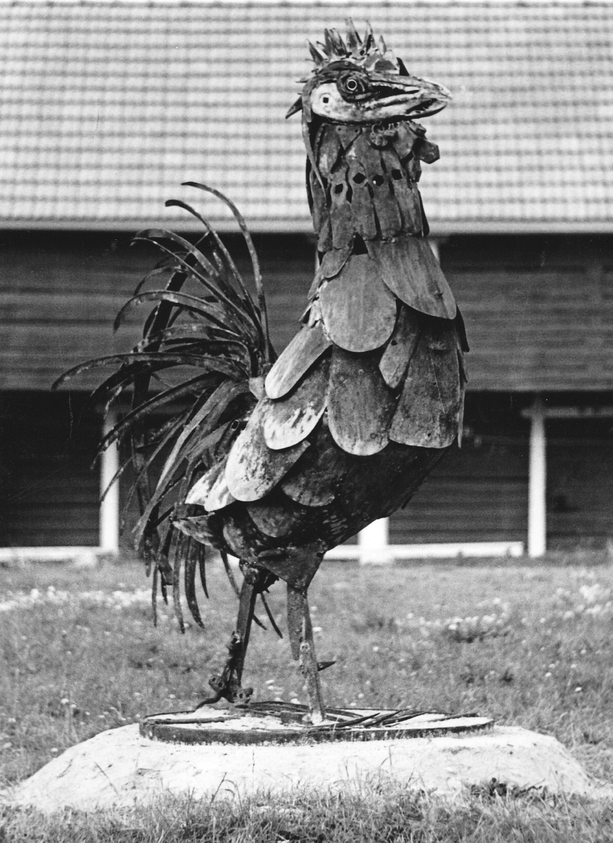 Rautaruoho made his sculptures from agricultural tools. Cock statue in Koskenpää, Finland.